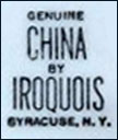 Iroquois China Company - Syracuse, New York - c.1965